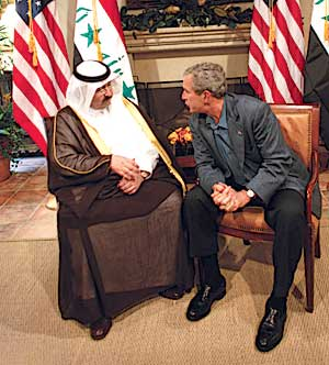 President George W. Bush confers with President Ghazi Mashal Ajil al-Yawer of the Iraqi interim government during the June 9, 2004 G–8 summit at Sea Island, GA.